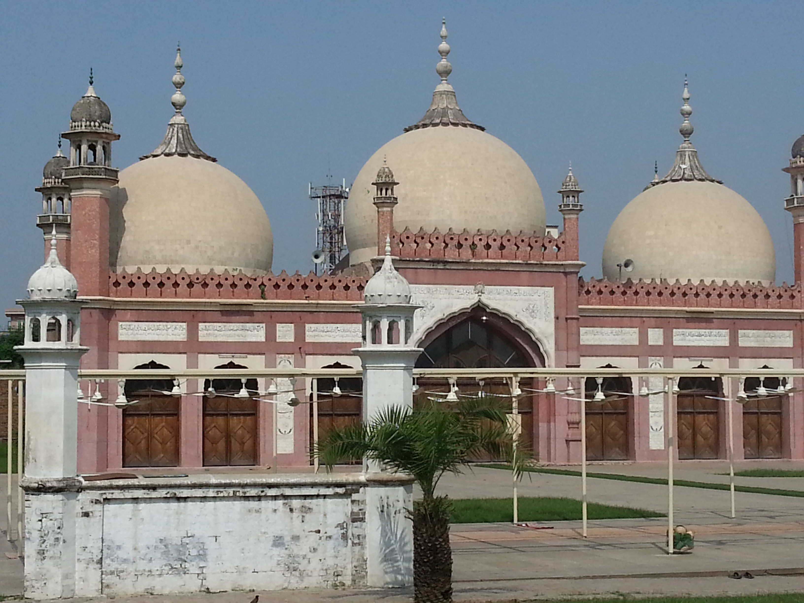 Eid Gah Gujrat is the oldest mosque in Gujrat. It has the Mughal's Architectural look. Though it is small but it resembles a lot with Badshahi Mosque Lahore. It is located on the Grand Trunk (G.T) road Gujrat. This is a photo of a monument in Pakistan identified as the PB-U-69